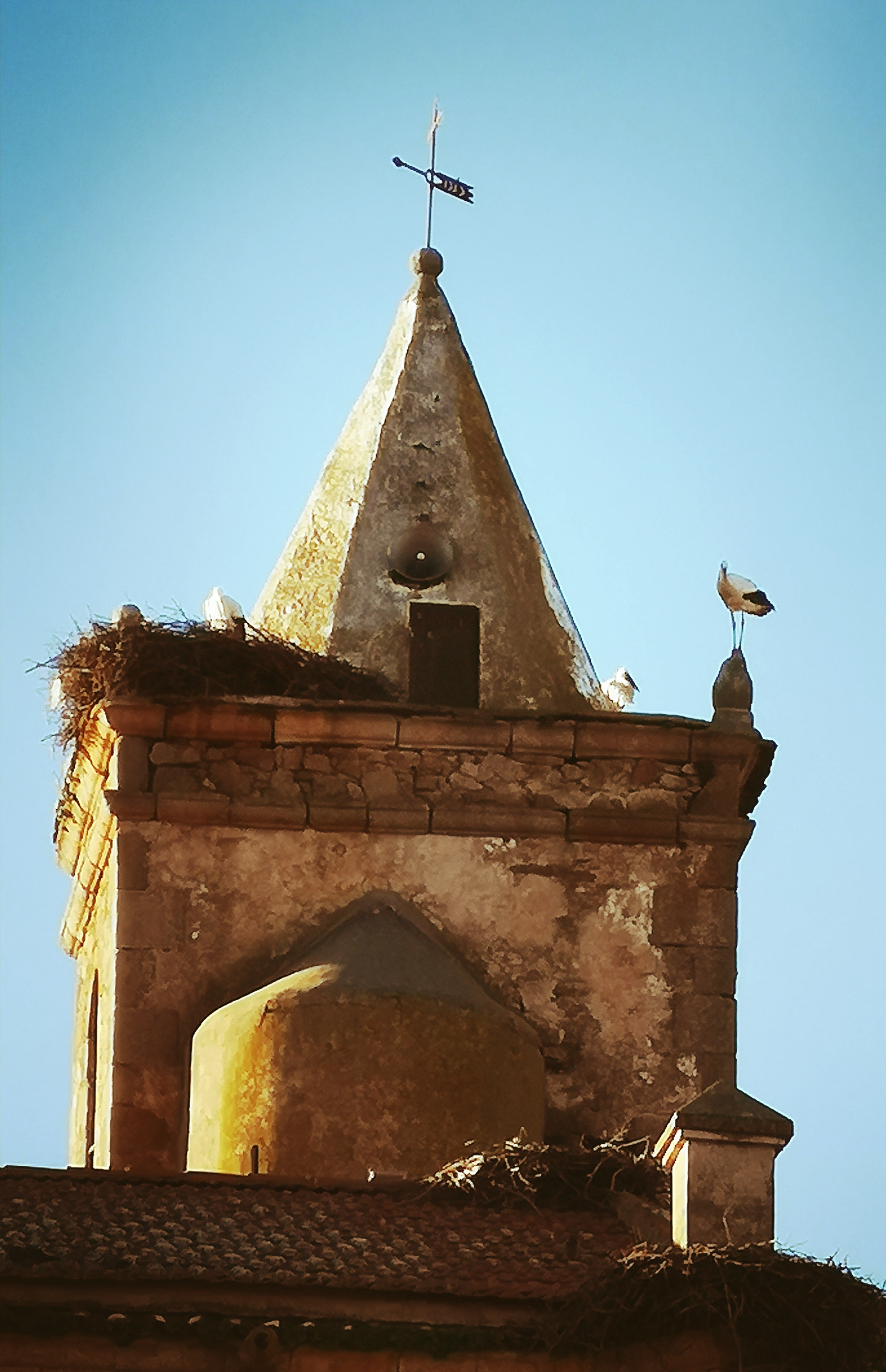 Church